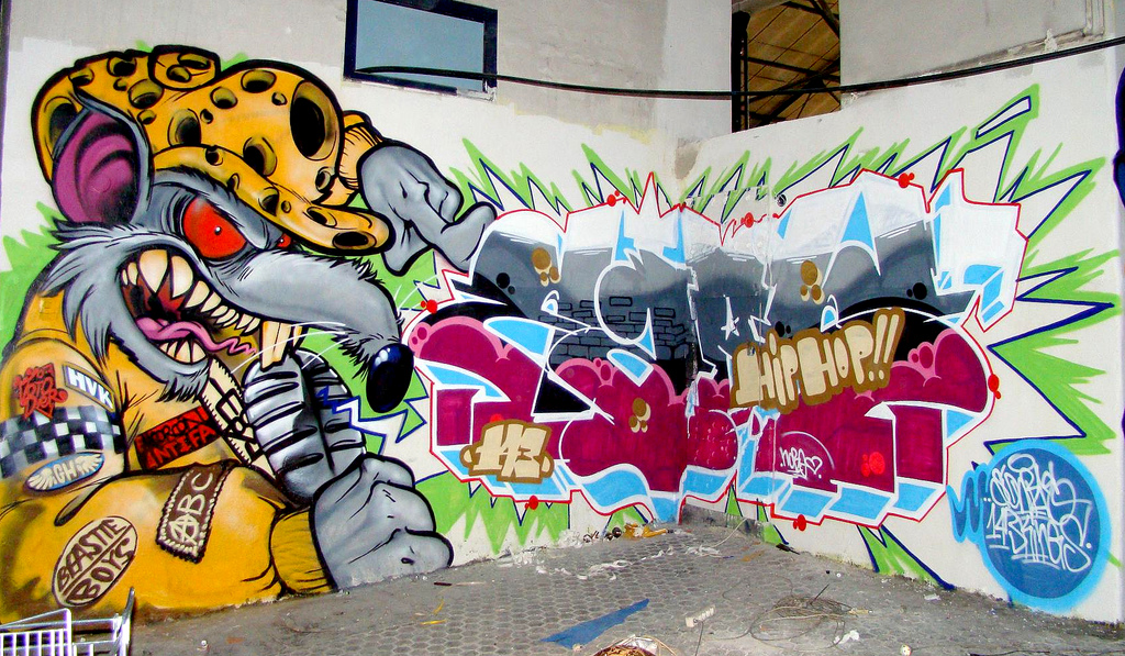 Back 2 Business Mucho rap Demasiado